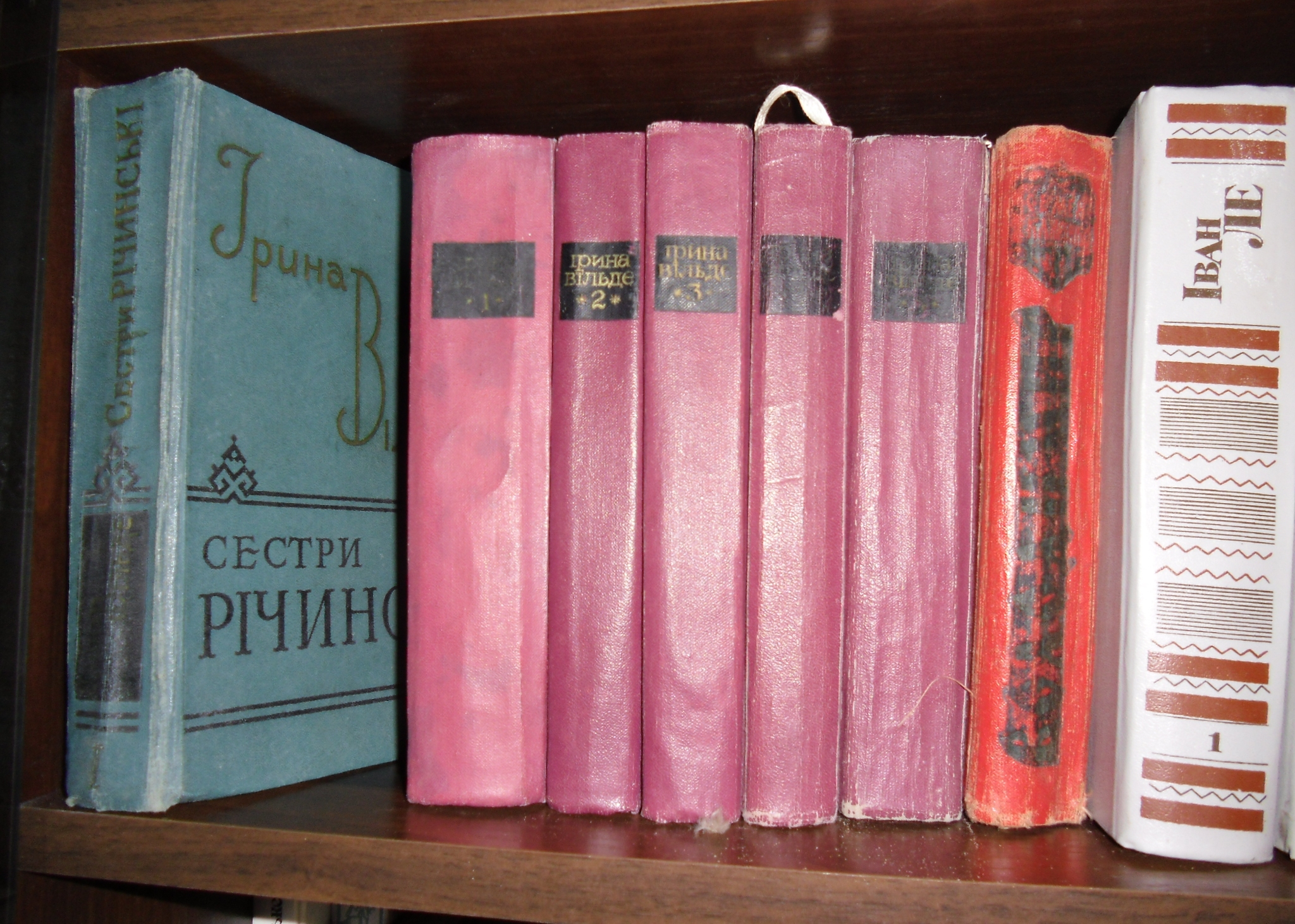 The collection of works by Iryne Vilde. Library of Bogdan Kosar.